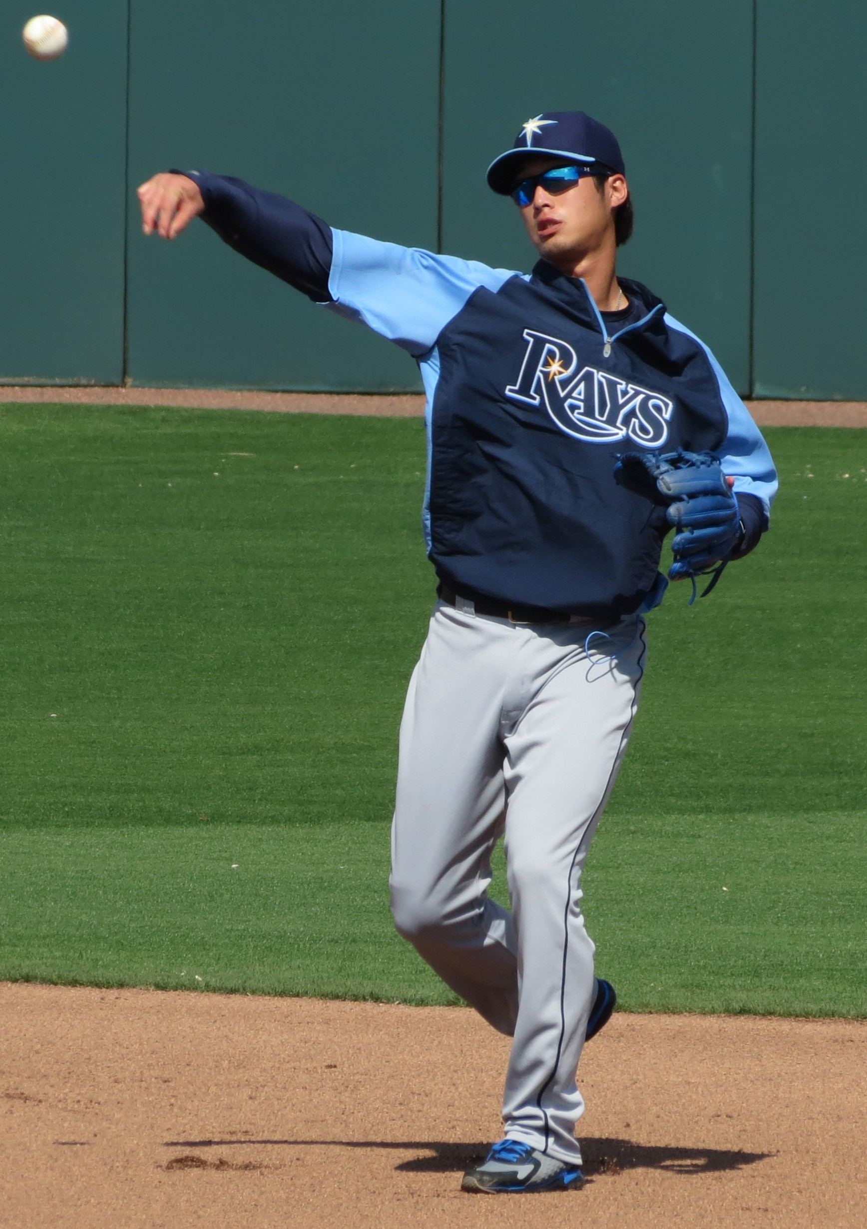 Hak-Ju Lee